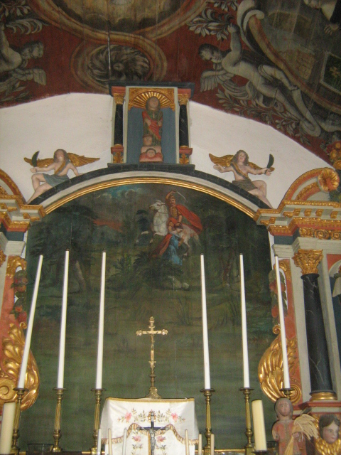 Sainte-Tréphine chapel in Pontivy.